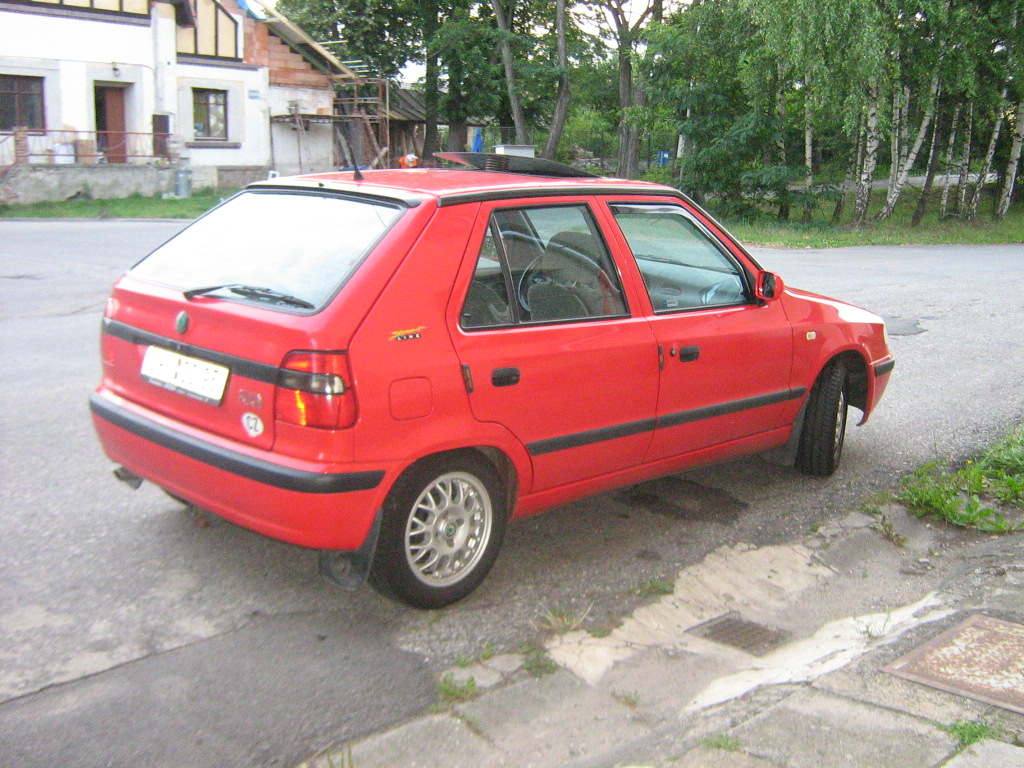 Škoda Felicia Sport Line